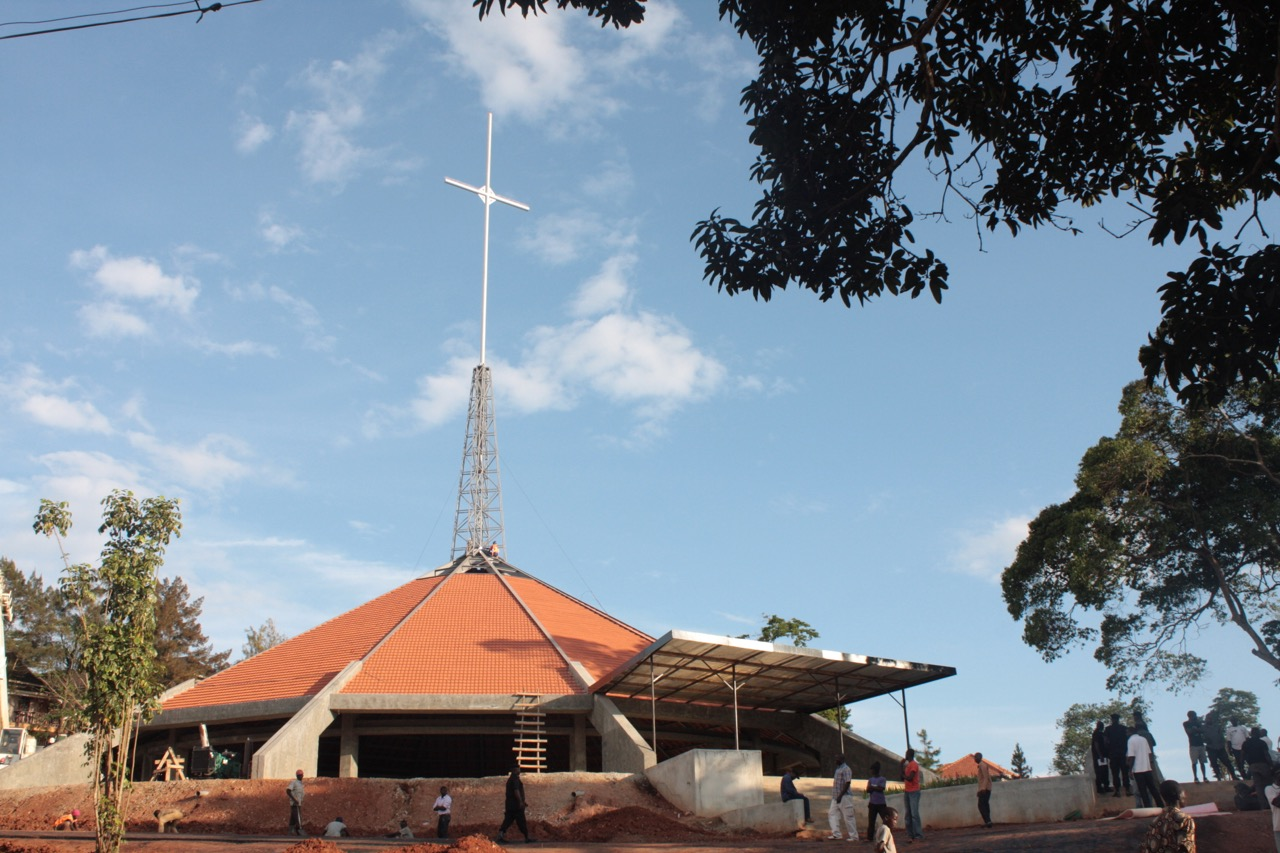 Martyrdom site of Uganda Martyrs